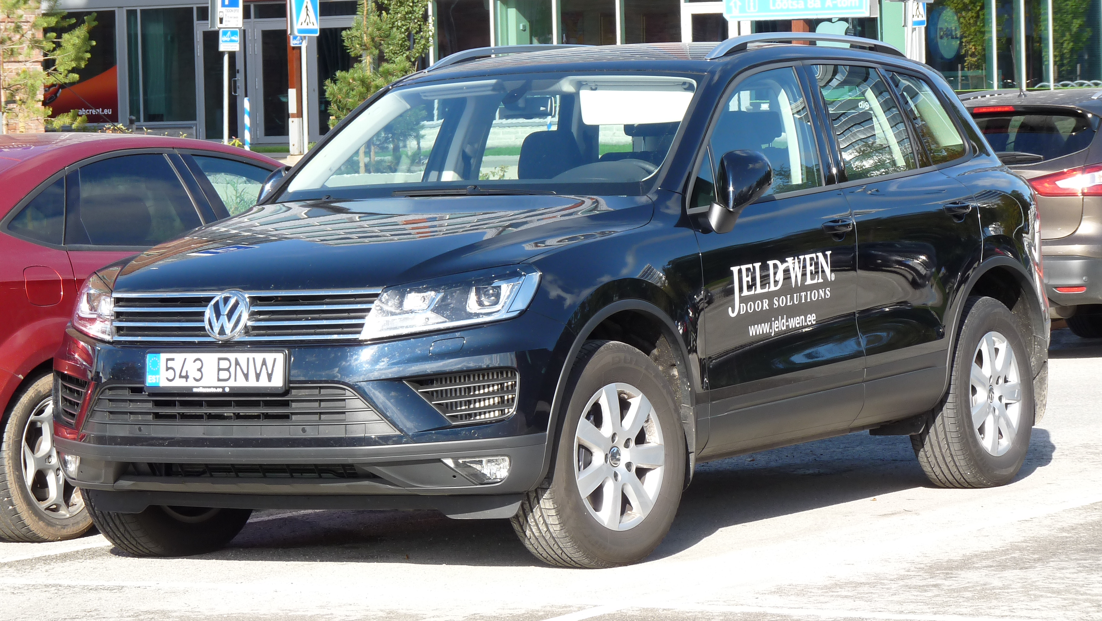 Volkswagen vehicle in Tallinn, Estonia